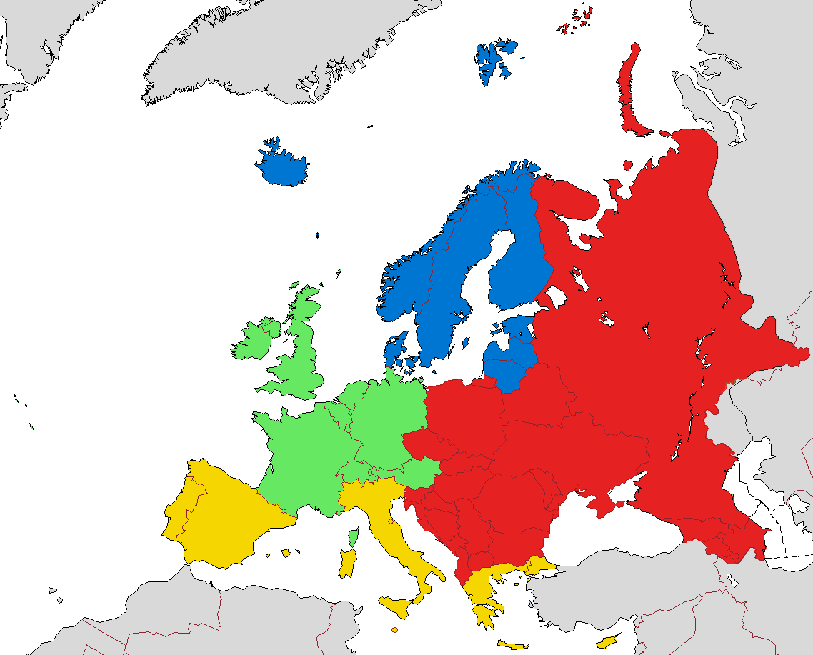 A map of European sub-regions and their boundaries, according to the categories set by EuroVoc (the European Union's official multilingual thesaurus). The regions in the image are colour-coded in the following manner: Blue - Northern Europe Green - Western Europe Red - Central and Eastern Europe Yellow - Southern Europe Grey - Territories not considered part of Europe For reference